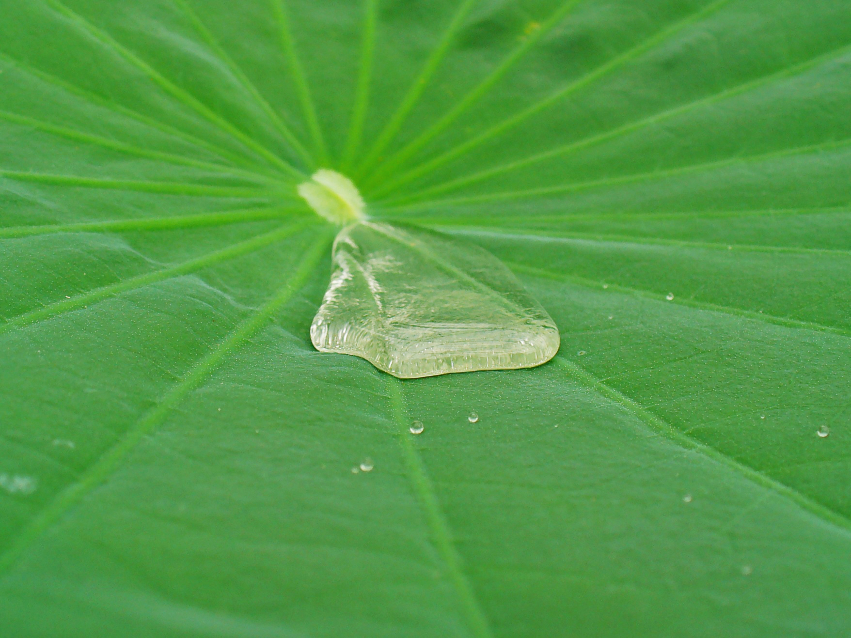 Nelumbo nucifera, Nelumbonaceae, Indian Lotus, Sacred Lotus, Bean of India, Water on a leaf (Lotus effect). Botanical Garden KIT, Karlsruhe, Germany.